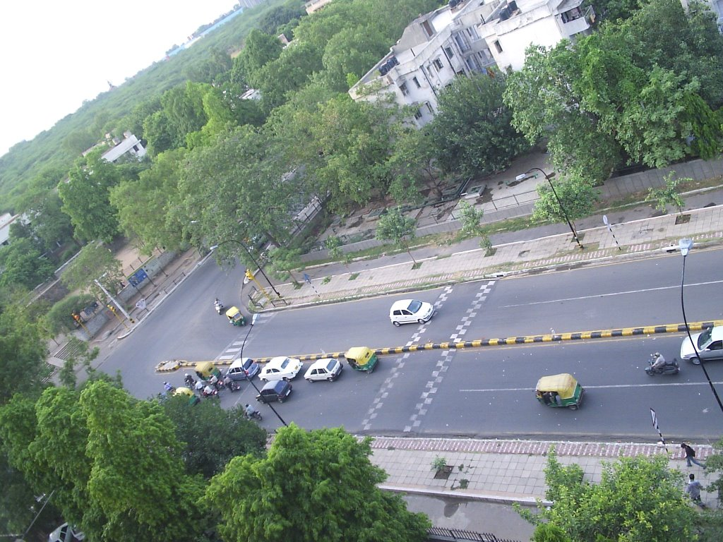 Gole Market - T-point of peshwa road and mandir marg. Picture taken from roof of M.S.Flats (peshwa road)